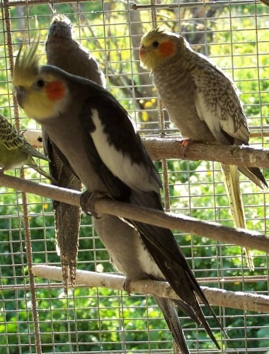 Nymphicus hollandicus (Calopsitta)